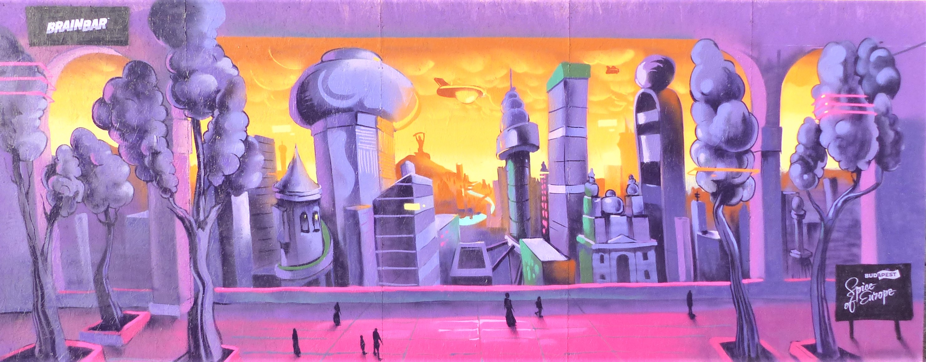 Spice of Europe (graffiti). On the sideway of Corvinus University. Taken on the 31st of May, 2019. Brain Bar 2019, the second day. At the sideway of Corvinus University, Central Europe